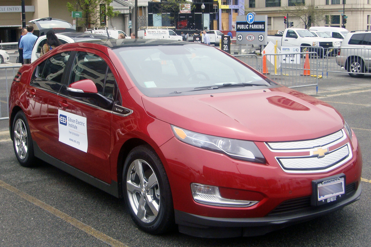 Chevrolet Volt displayed at the Ride, Drive & Charge event organized by the EDTA, downtown Washington, D.C.